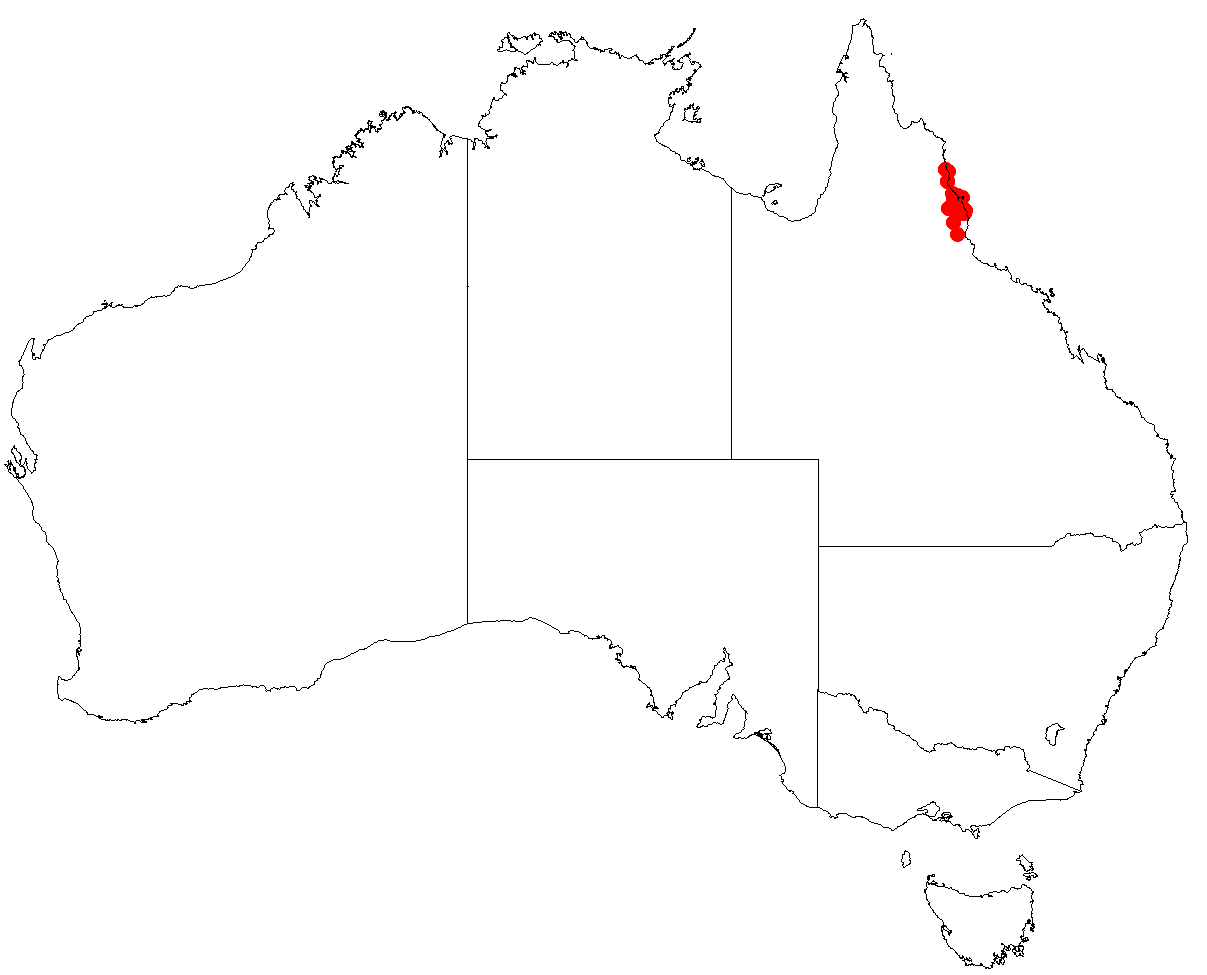 Australian distribution of Amyema glabra based on download from Australasian Virtual Herbarium May 9, 2018